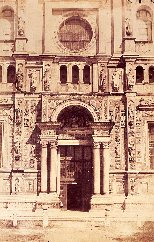 Luigi Sacchi (1805-1861) - The Chartreuse at Pavia, Italy, 1854.